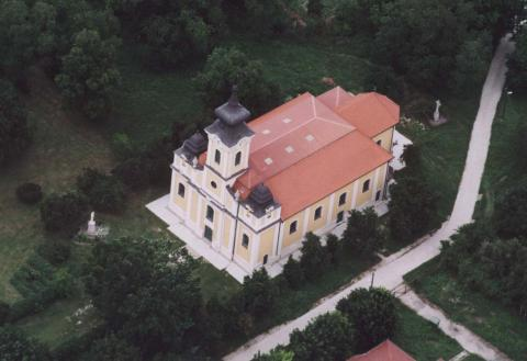 Perkáta, Hungary, aerialphotography This is a photo of a monument in Hungary, Identifier: 3747 Kisboldogasszony római katolikus templom